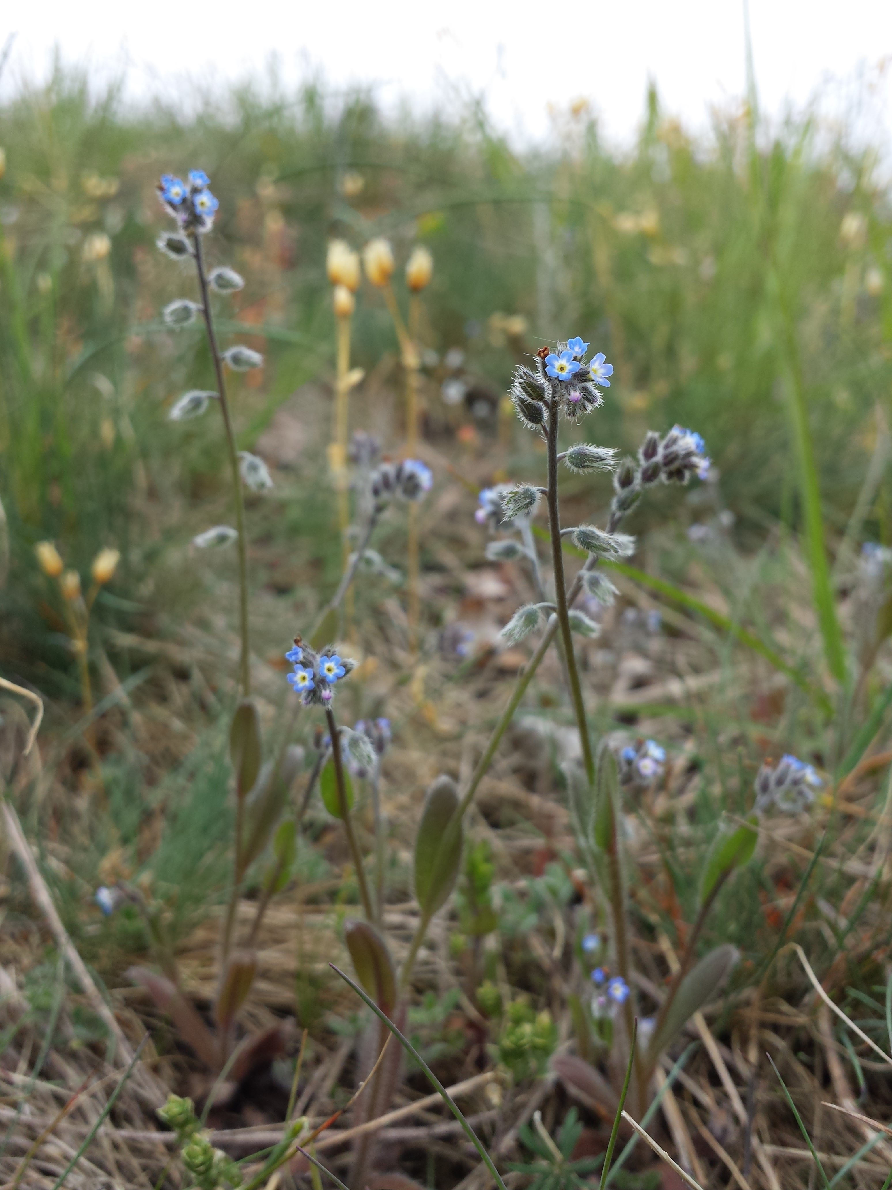 Habitus Taxonym: Myosotis ramosissima ss Fischer et al. EfÖLS 2008 ISBN 978-3-85474-187-9 Location: Steinbacher Heide, Leiser Berge, district Korneuburg, Lower Austria - ca. 450 m a.s.l. Habitat: dry grassland on limestone